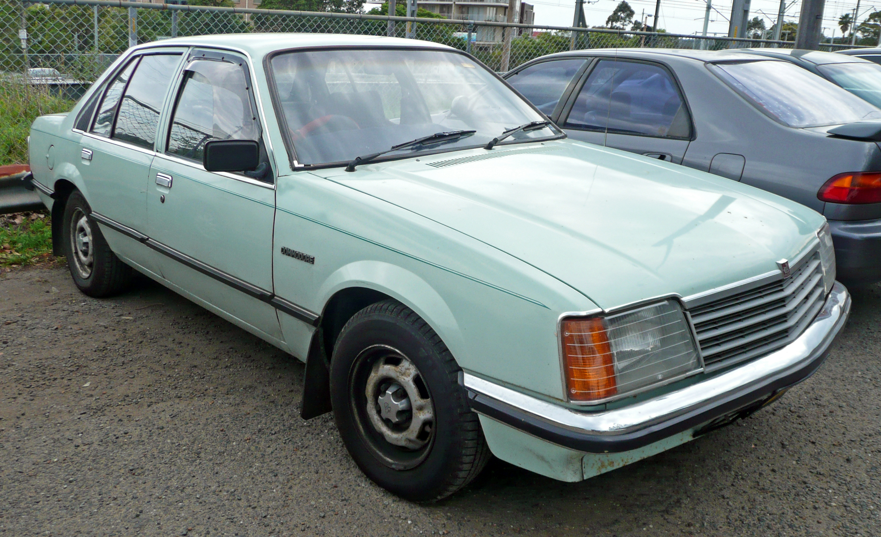 1979 Holden VB Commodore 3.3 sedan. Photographed in Sutherland, New South Wales, Australia.